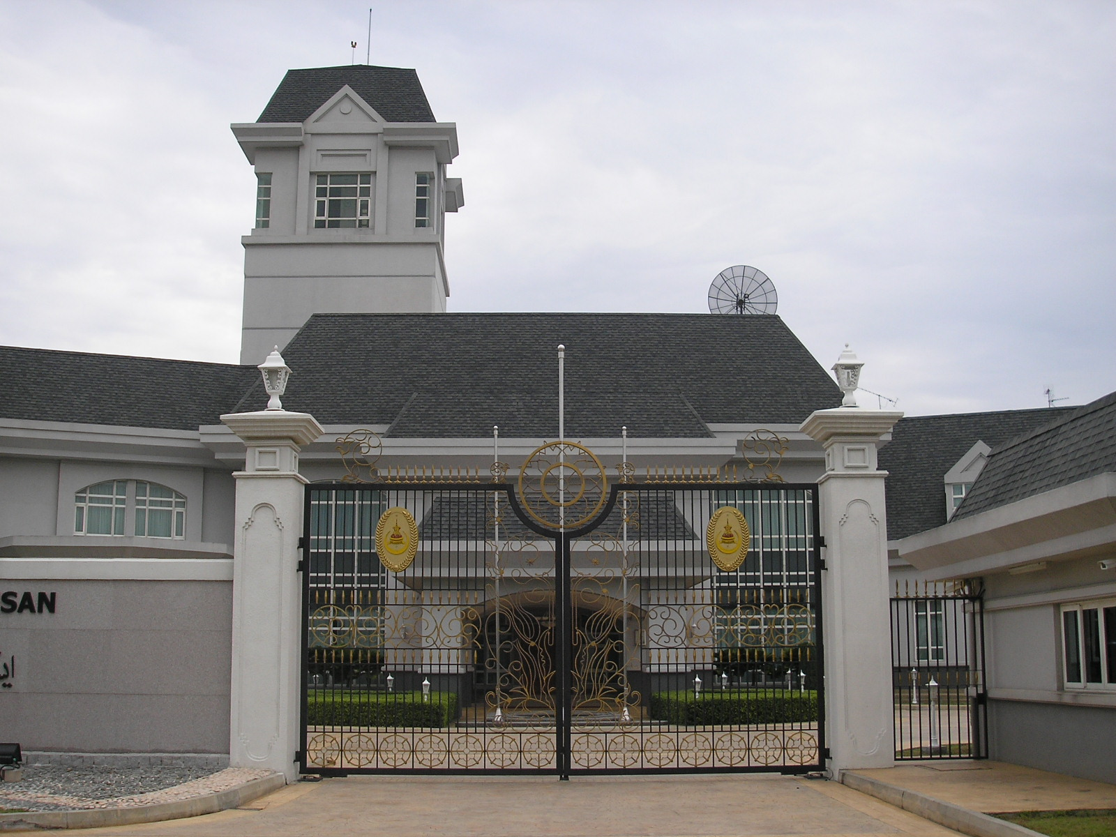 The Istana Darul Ehsan in Putrajaya, residence of the Sultan of Selangor.